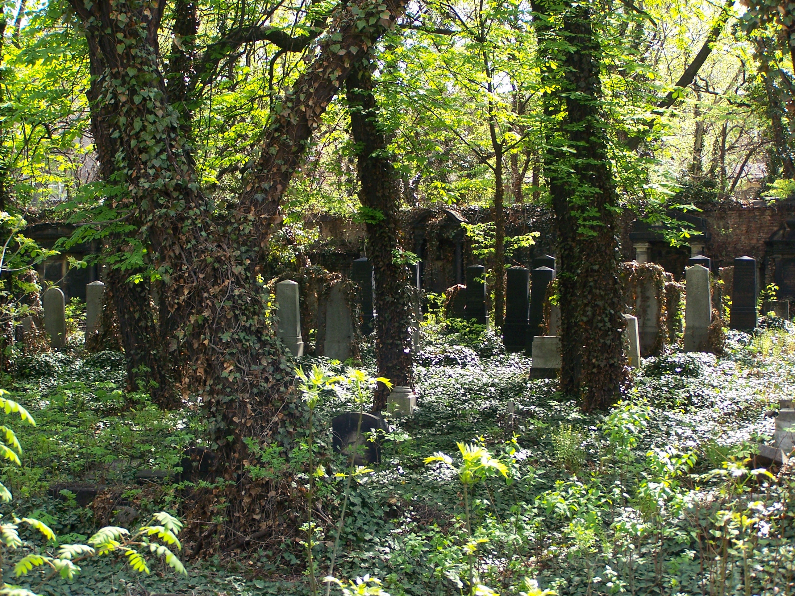 Jewish Cemetery in Katowice (founded 1868).